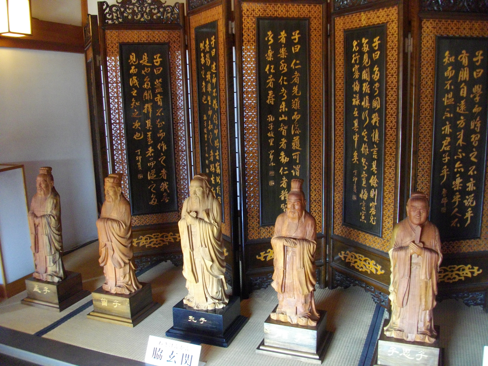 Famous Confucian Statue of the Ashikaga Gakko